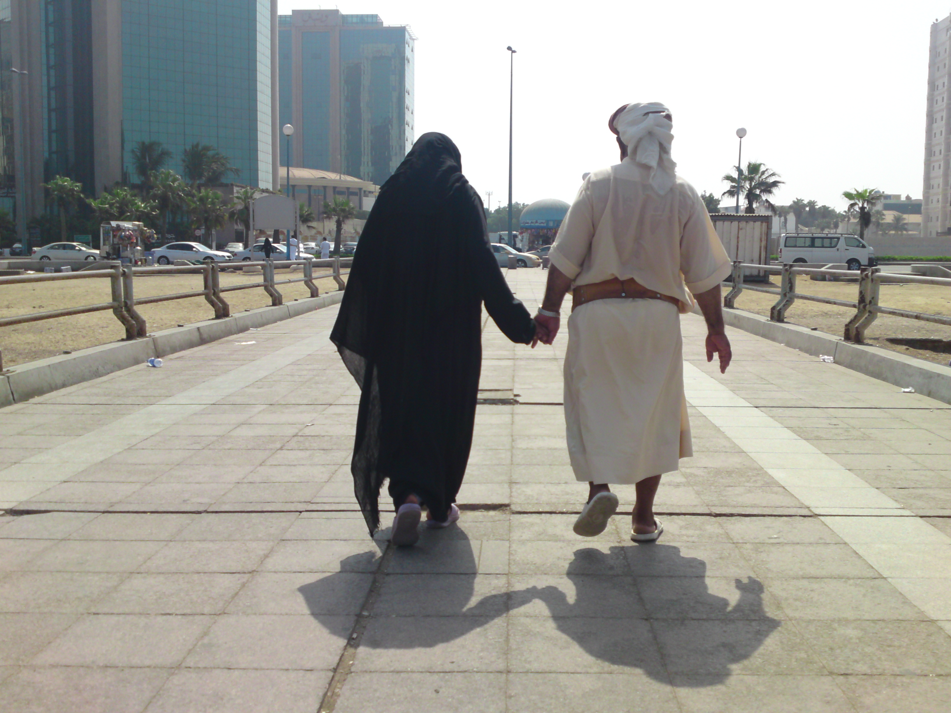 Arabic couple at some undisclosed location, possibly in Jizan, Saudi-Arabia.